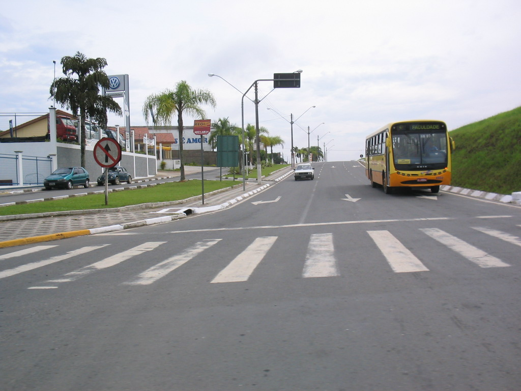 CAIO bus with unknown chassis in Registro, São Paulo (state), Brazil.